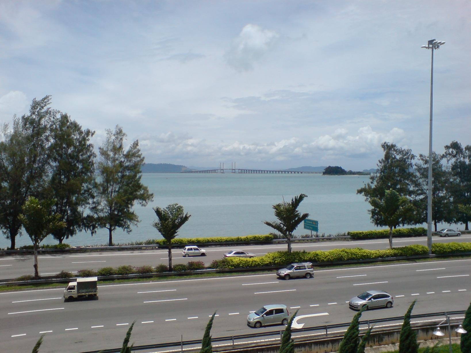 Tun Lim Exp.Way 2